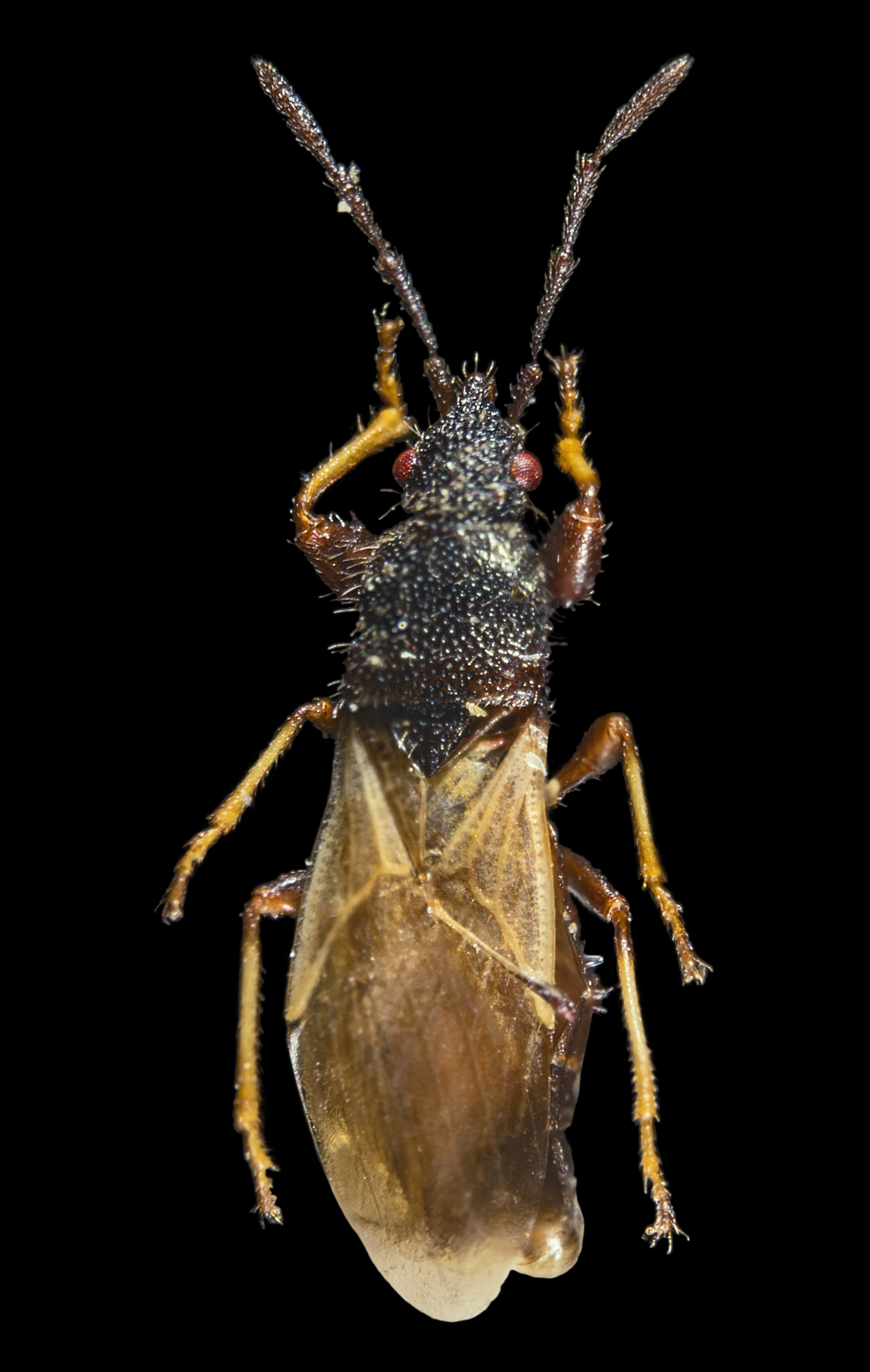 Brachyplax tenuis